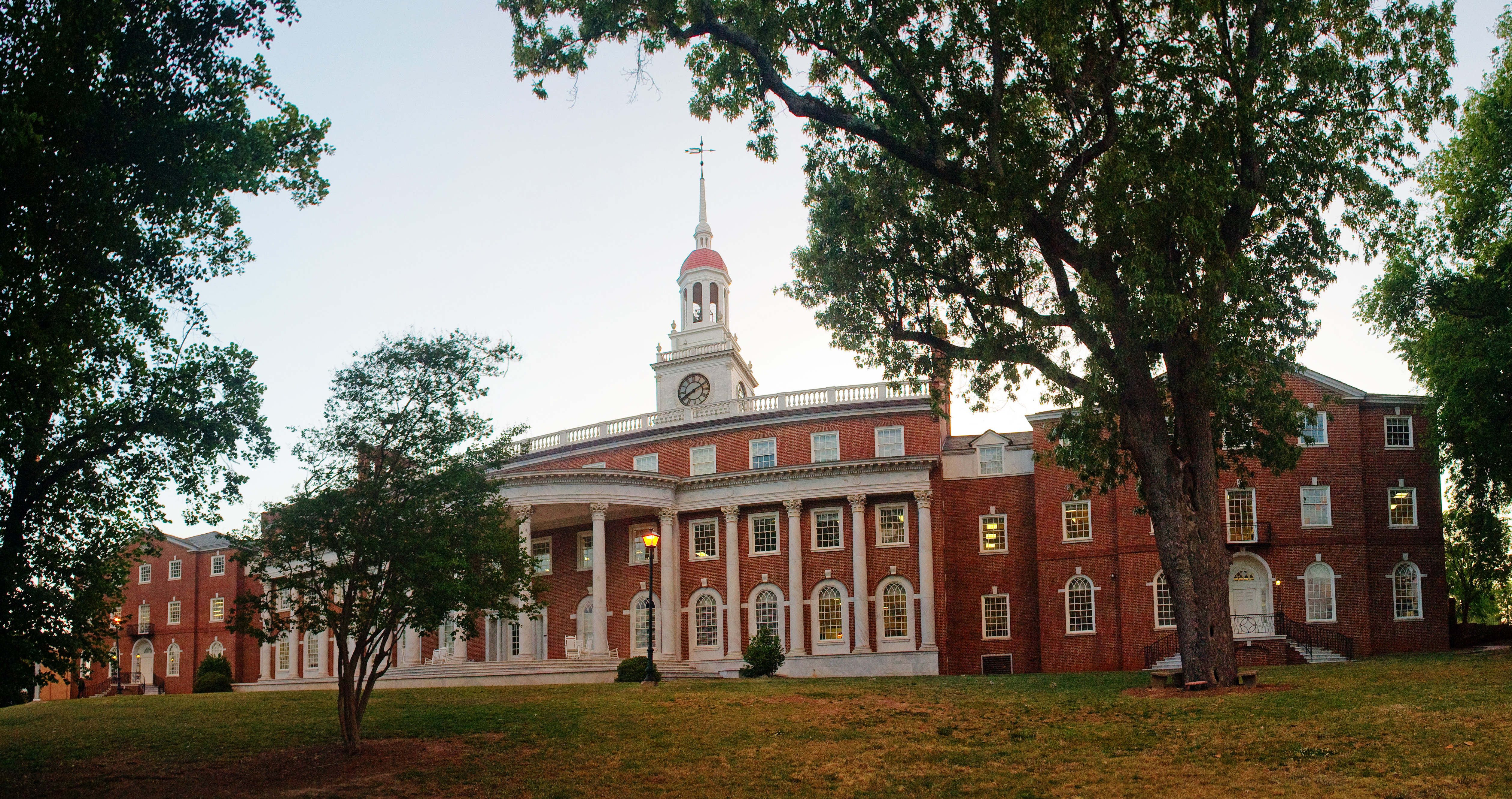 Personal picture. Mercer Law, 2007.